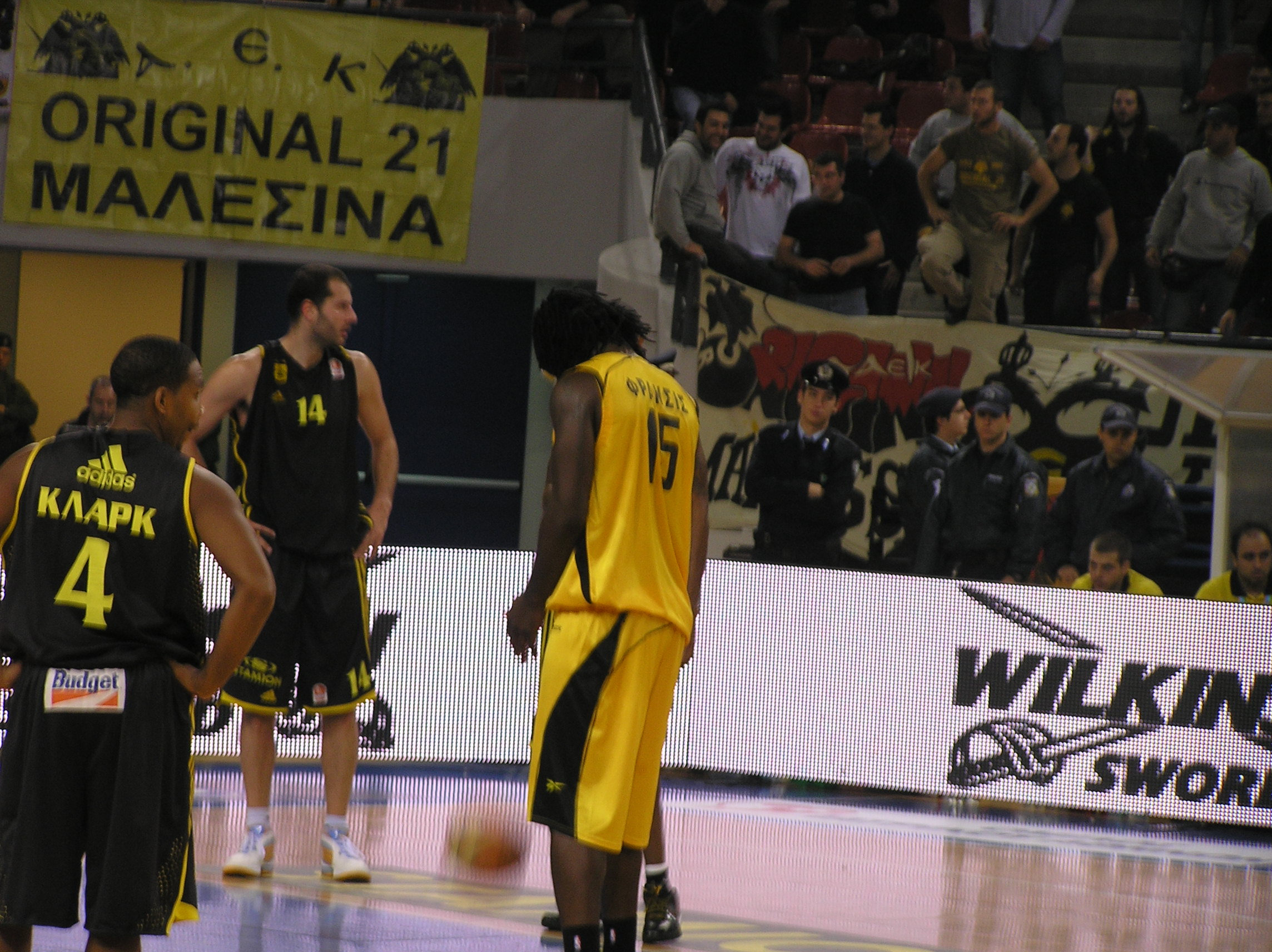 Torin Francis vs Aris Salonica, December 19, 2009